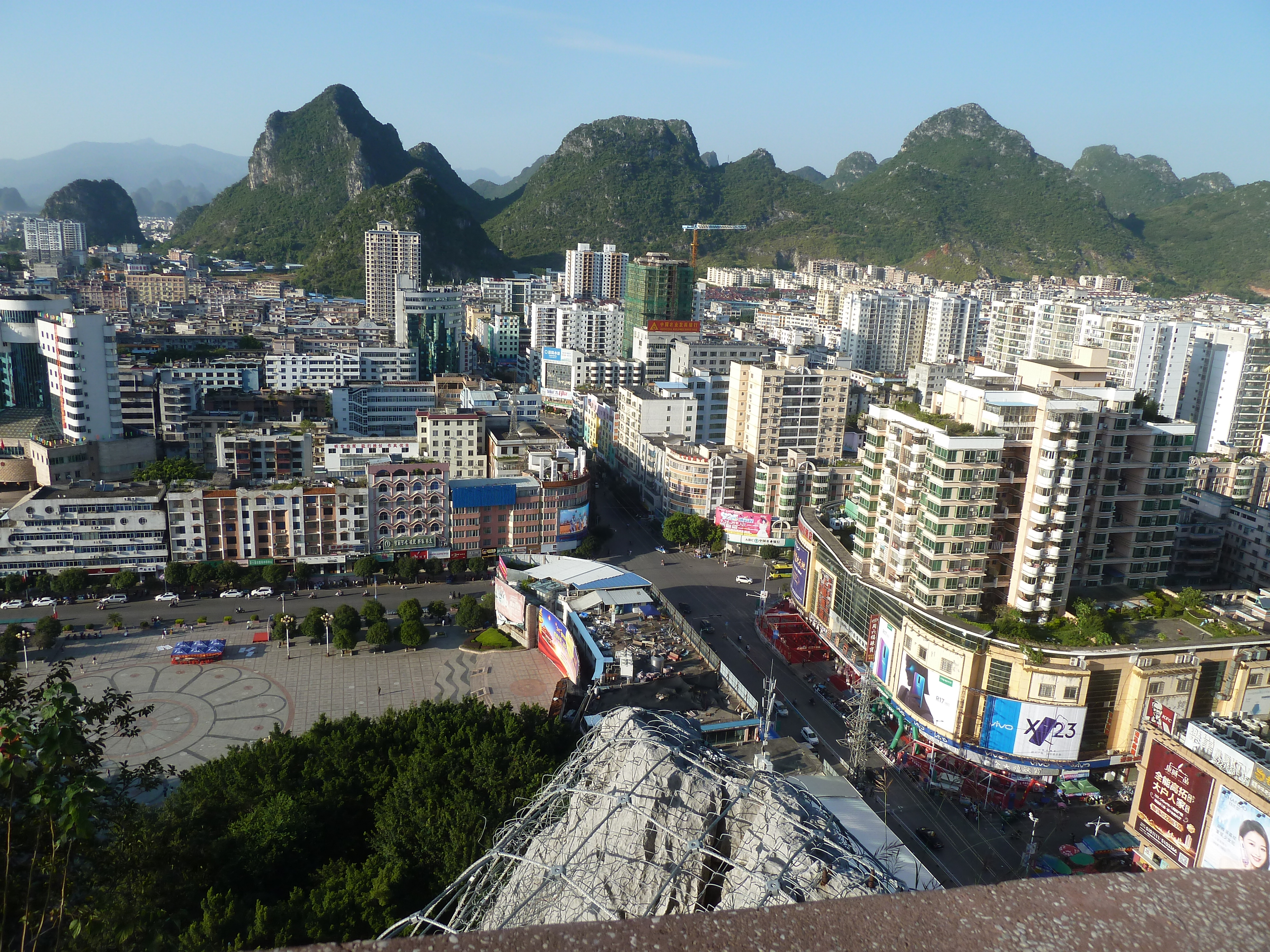 View of downtown Hezhou from Lingfeng Park.